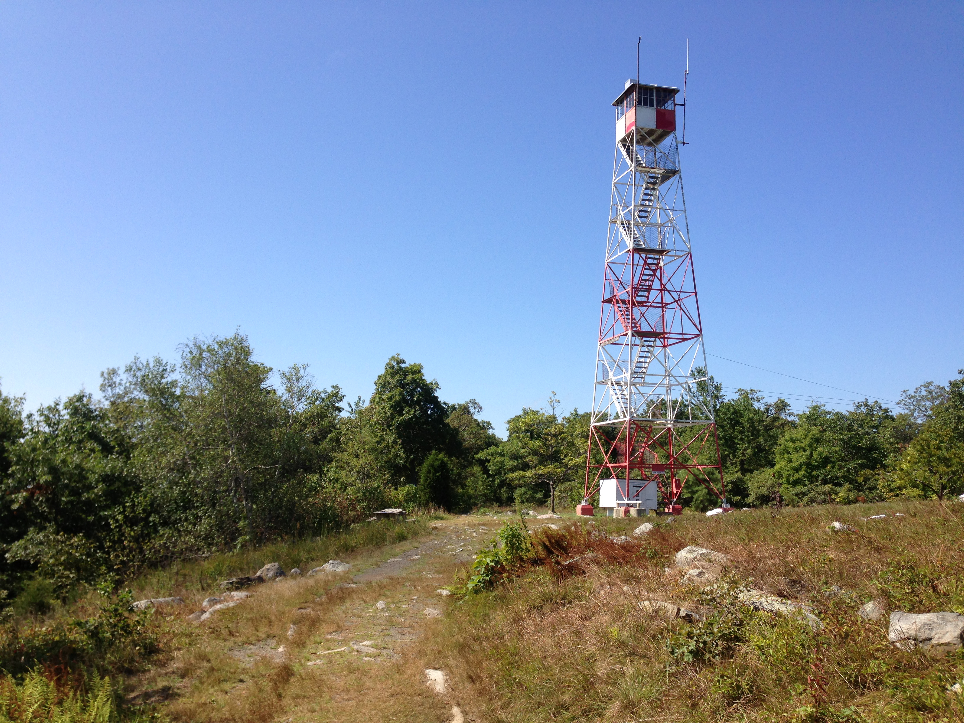 View southwest along the Appalachian Trail about 10.6 miles northeast of the Delaware Water Gap at Catfish Fire Tower in the Delaware Water Gap National Recreation Area, New Jersey